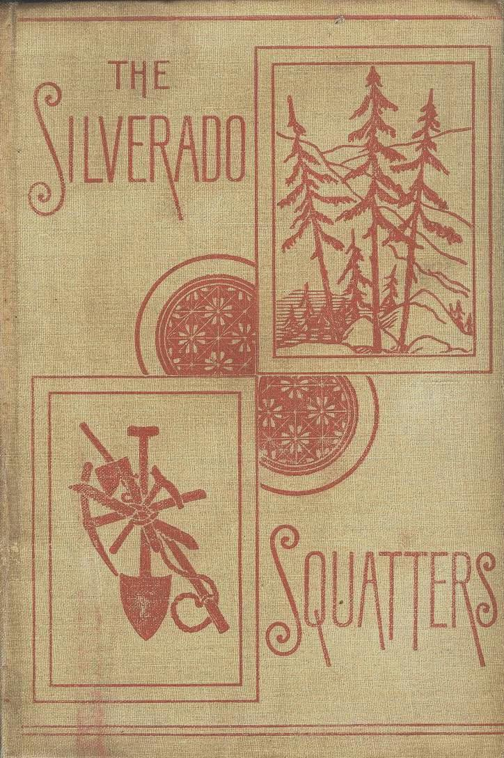 Cover of the The Silverado Squatters. New Edition published in 1886 by Chatto & Windus.